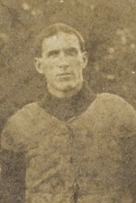 Cropped picture of Alabama football player T. S. Sims